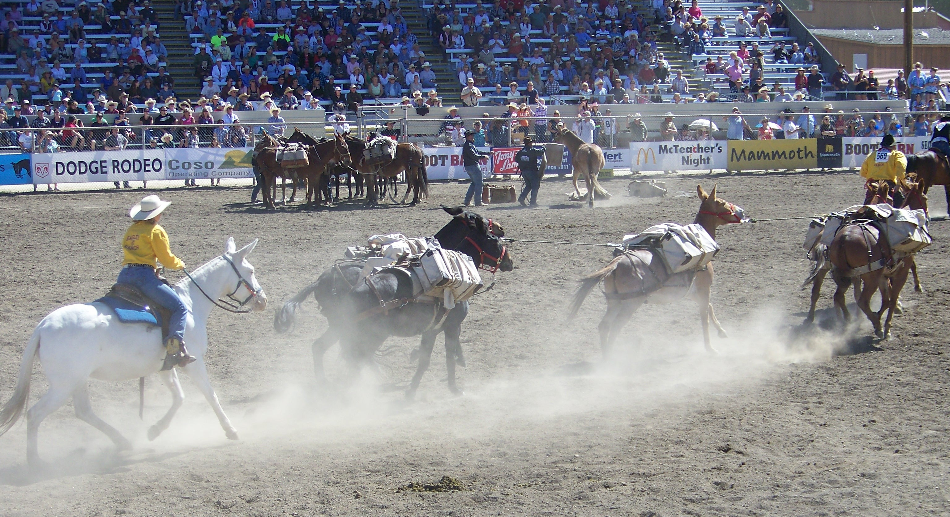 A photograph of a competitive event at the annual Bishop Mule Days, called the Pack Scramble